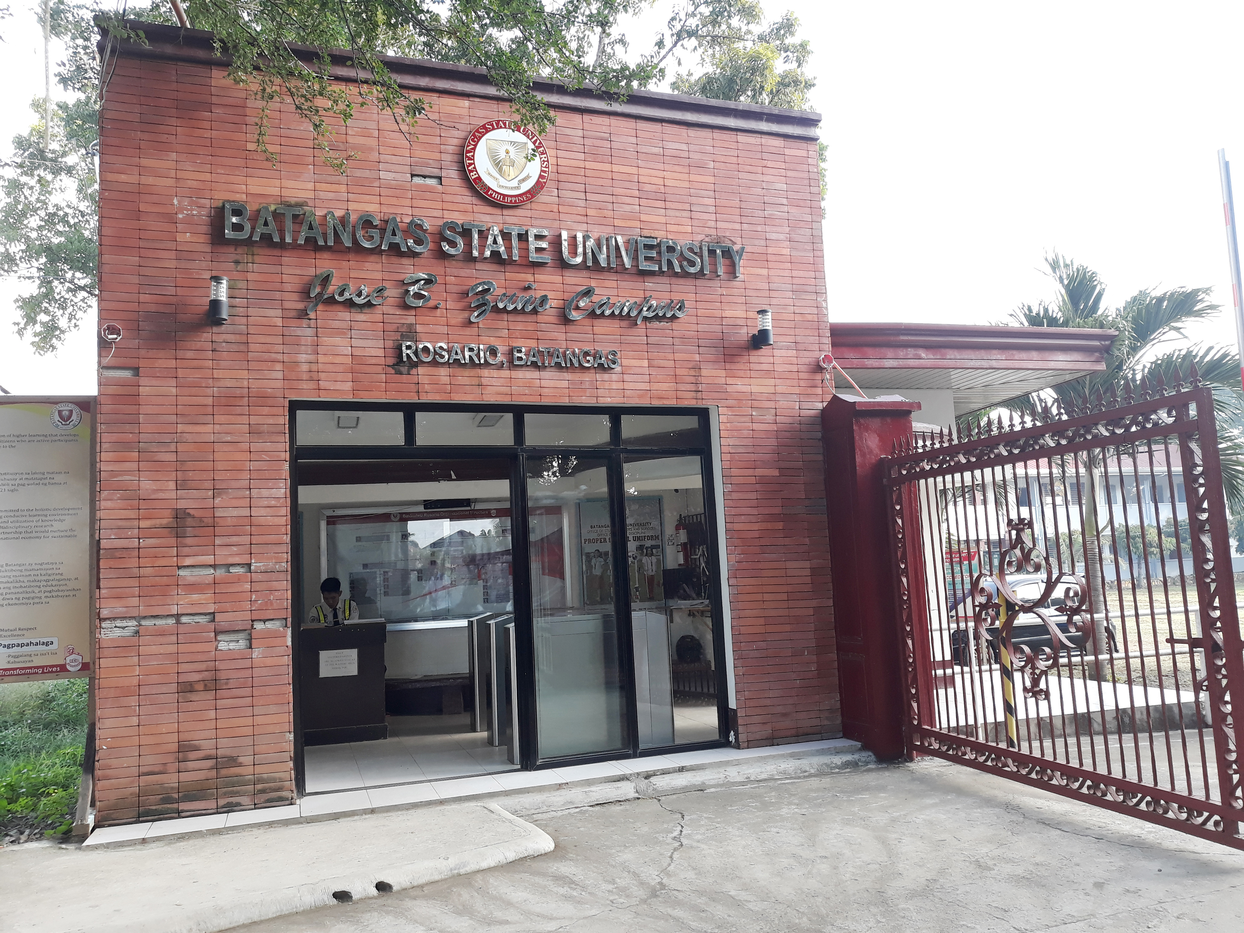 BatStateU Rosario – Jose B. Zuno Campus